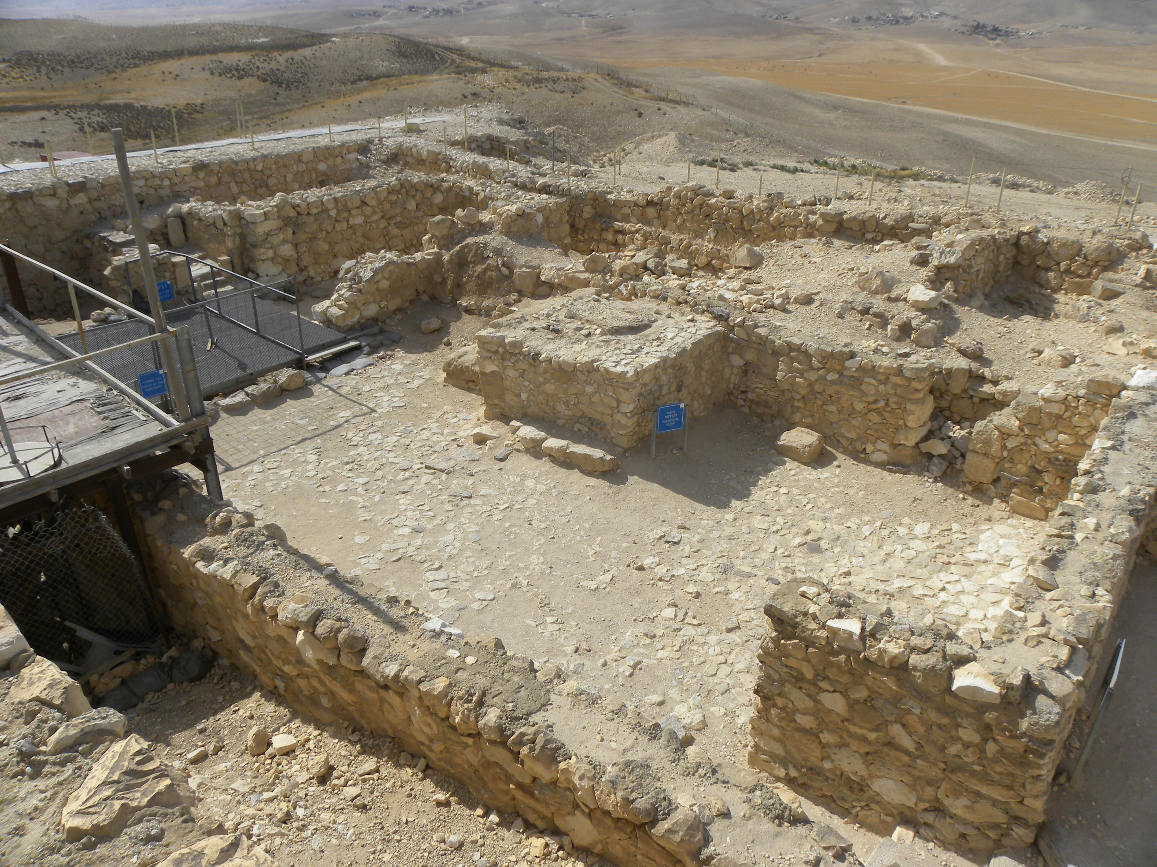 An Israelite fortress was first built atop tel Arad in the 9th century BCE. Subsequent modification and rebuilding continued until the end of the Persian period in the late-4th century BCE. Tel Arad